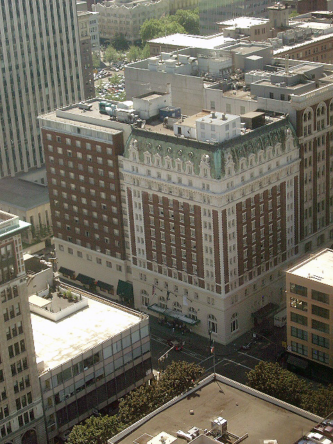 The Benson Hotel and surroundings in Portland, Oregon. Taken by myself, Ajbenj, from the US Bancorp Tower. Released to public domain.